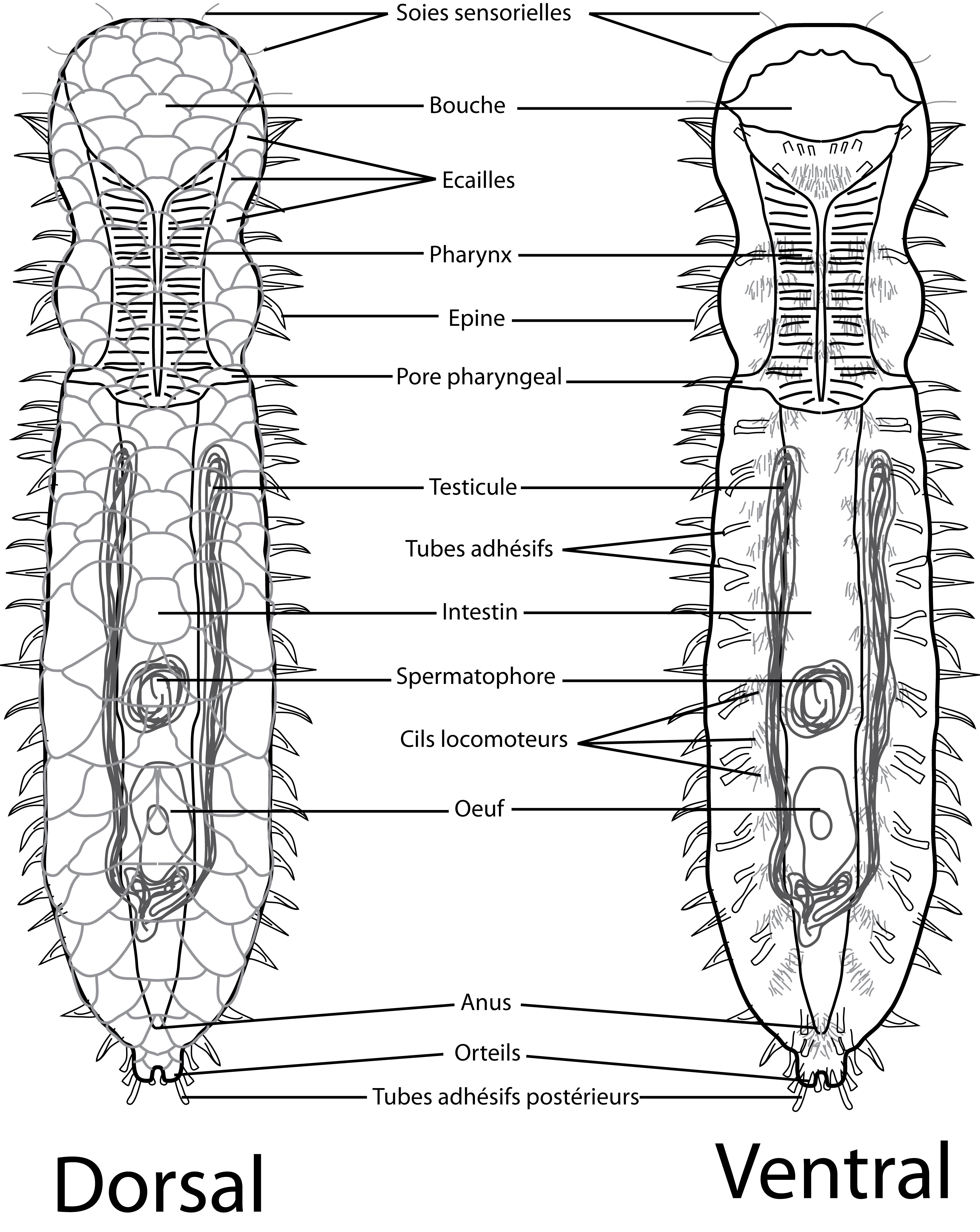 Diplodasys rothei